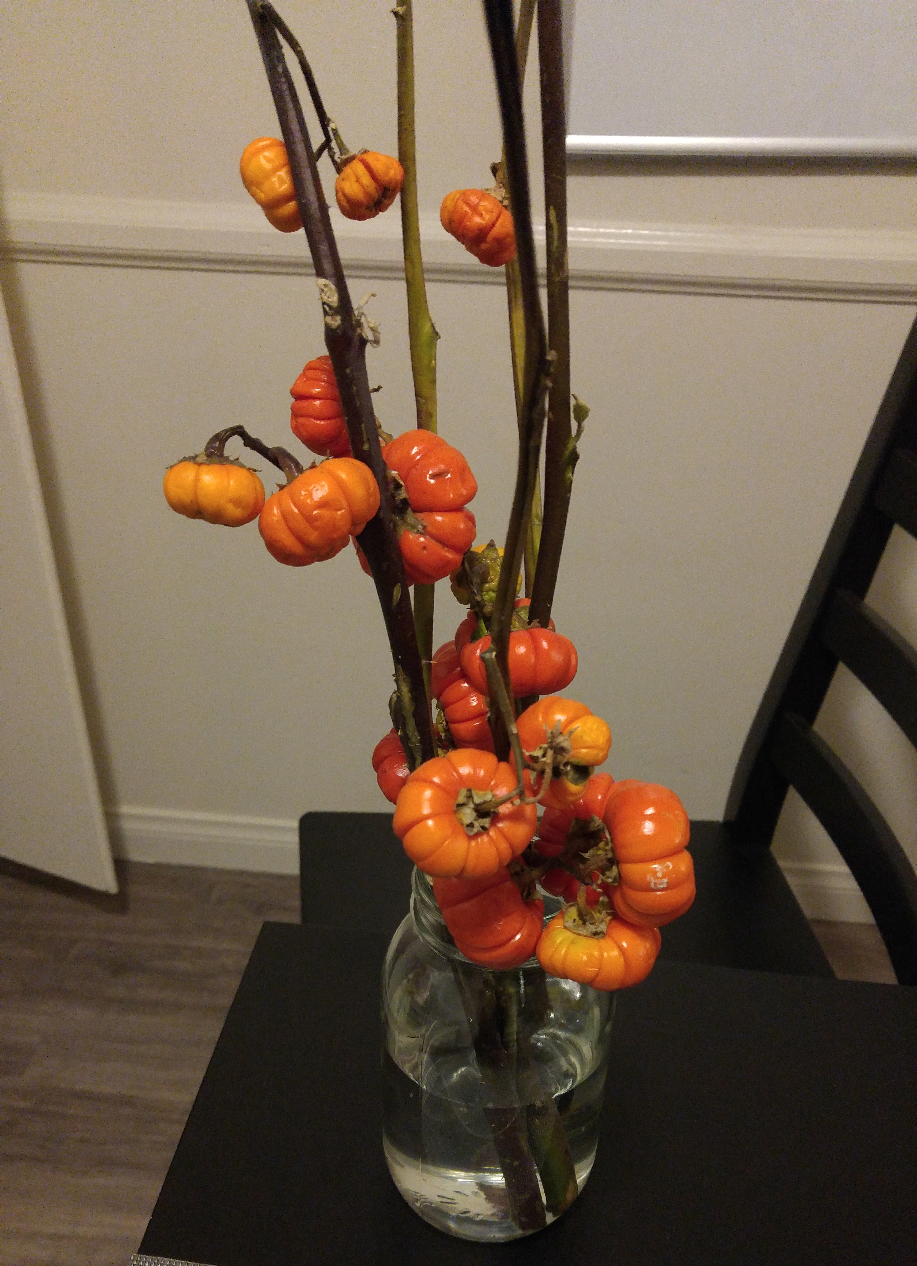 Solanum_aethiopicum, sold from a grocery store in Los Angeles, California.